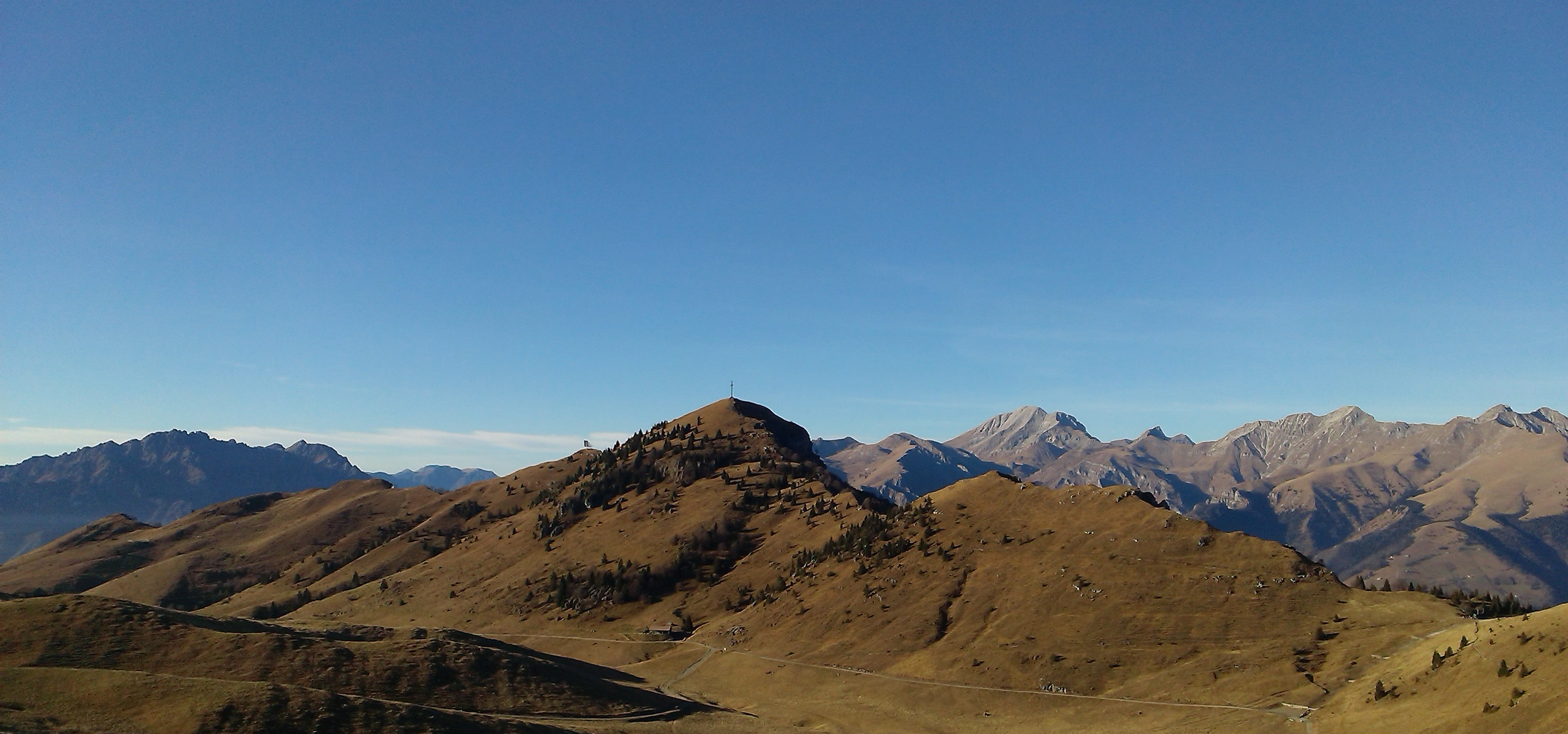 Pizzo formico dal rifugio Parafulmine